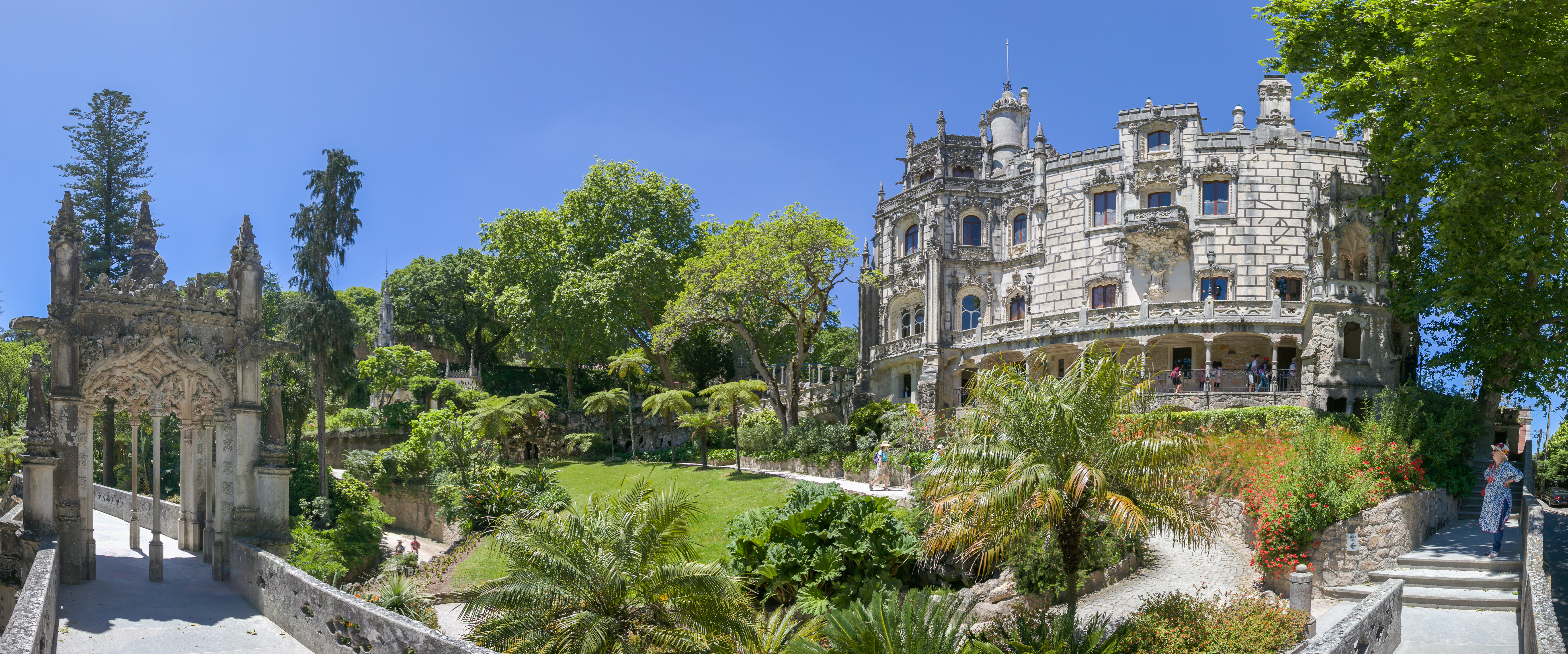 Quinta da Regaleira, Sintra, Portugal